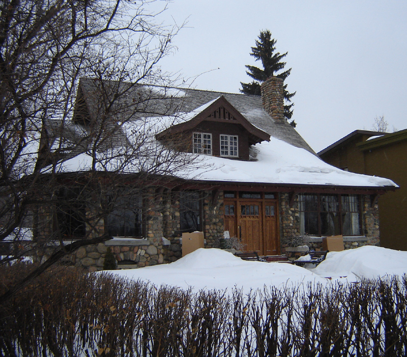 Municipal Heritage Properties:Alexander House City Park , Core Neighbourhoods SDA, Saskatoon, Saskatchewan, Canada